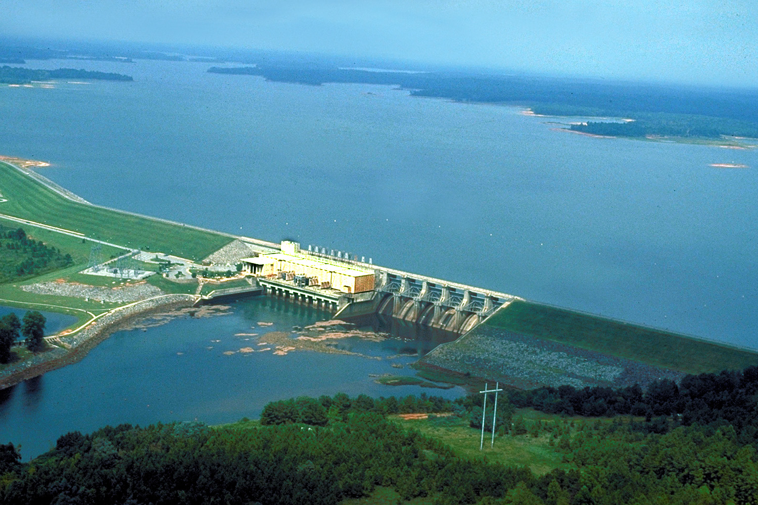 West Point Dam and Lake on the Chattahoochee River. The dam impounds West Point Lake. The dam is located near La Grange in Troup County, Georgia, USA, near the Alabama state line. The dam was constructed by the U.S. Army Corps of Engineers for flood control on the Chattahoochee River. Coordinates: 32°55′5.51″N 85°11′16.53″W / 32.9181972°N 85.187925°W